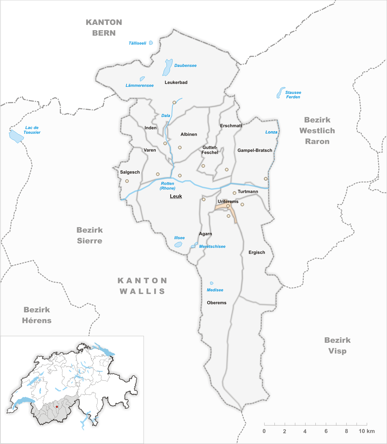 Municipality Unterems